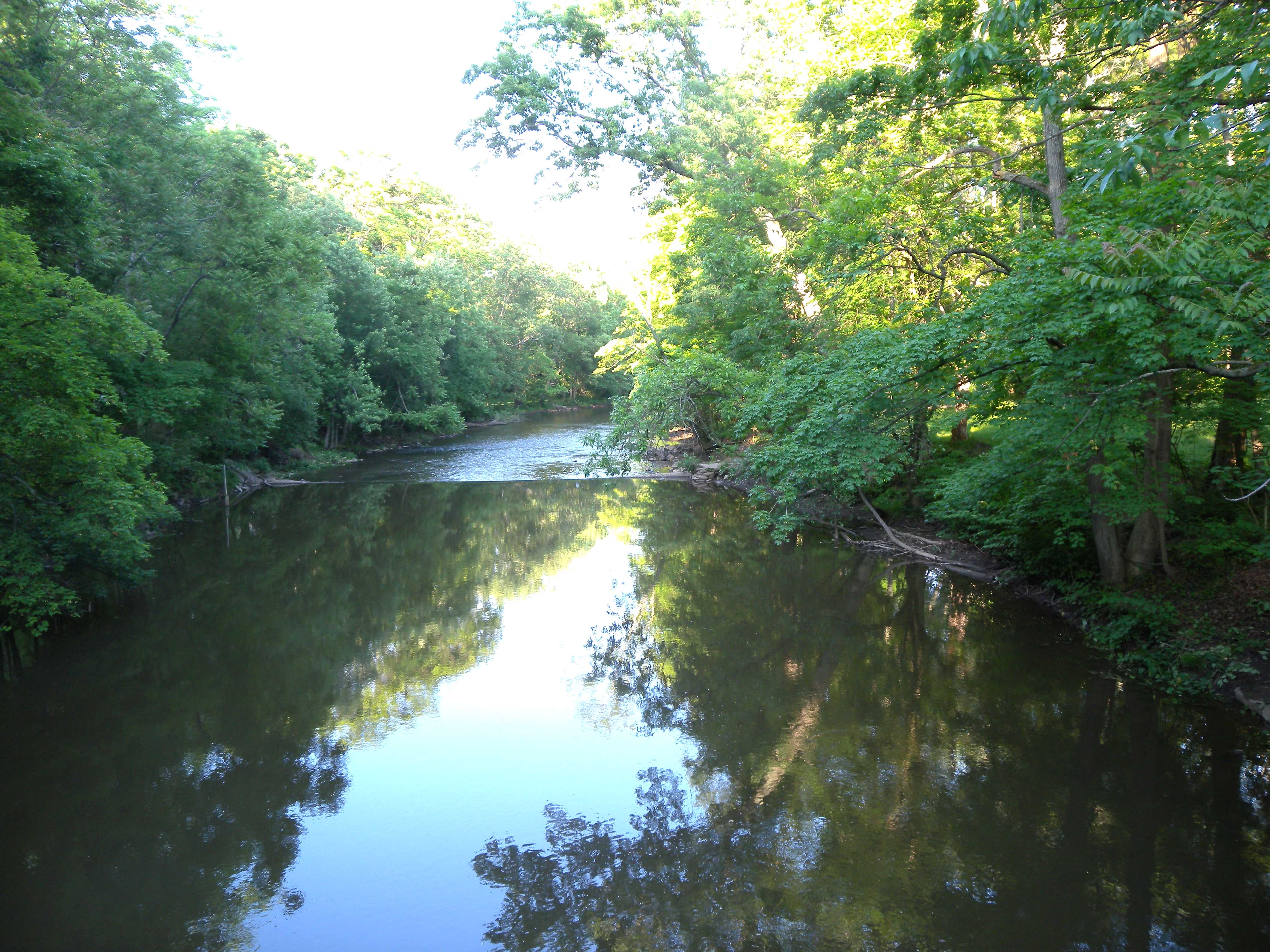 Looking east from Stanley Avenue as Passaic River flows between Stanley Park, Chatham (left) and Passaic Park, Summit (right); on a mostly sunny afternoon.